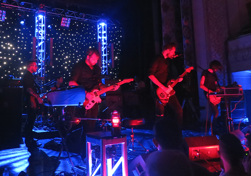 Caspian plays a sold-out 10th Anniversary show at the Larcom Theatre in Beverly, MA on Saturday, October 18th, 2014